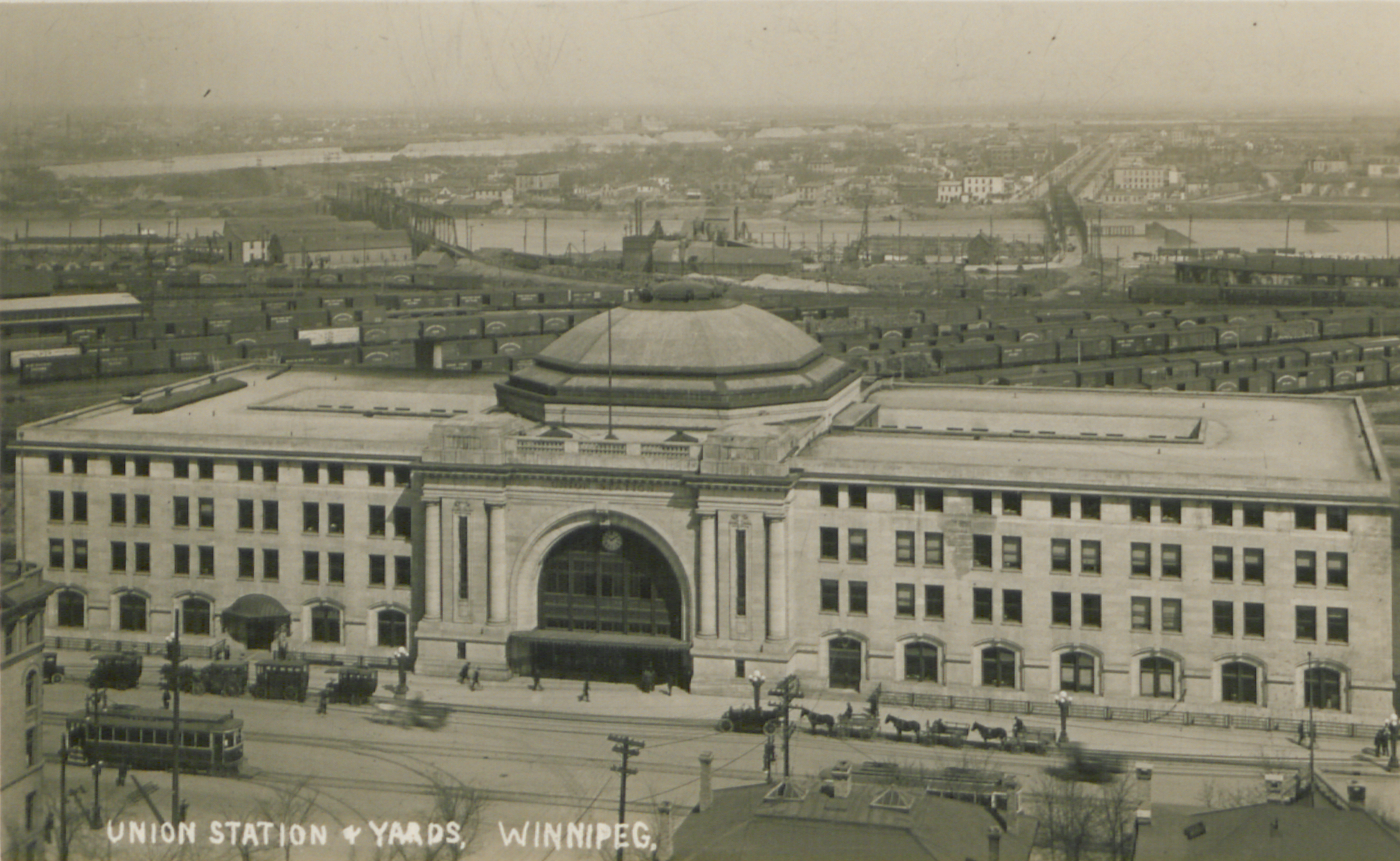 Original caption: “Union Station and Yards, Winnipeg.”